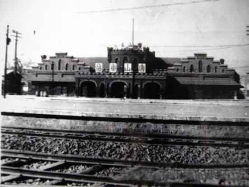 Tangshan Railway Station in 1907